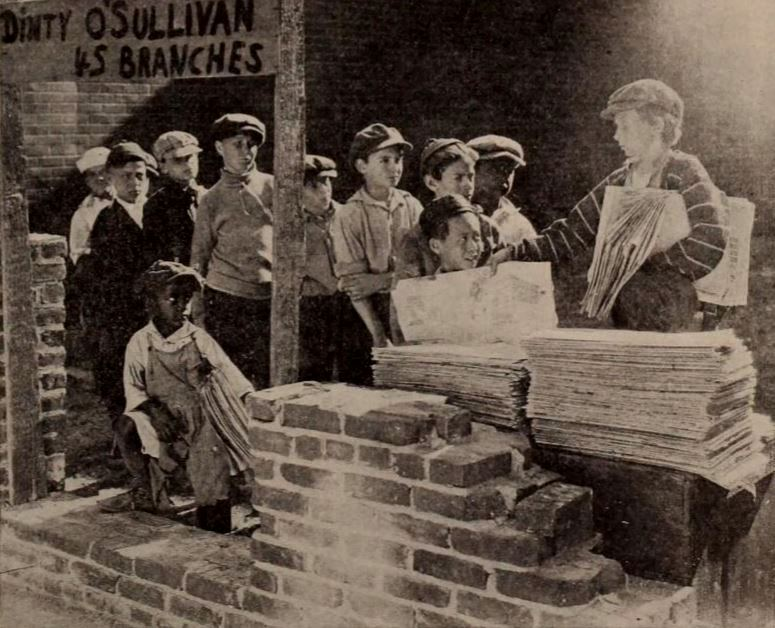 Still from the American comedy film Dinty (1920) with Wesley Barry, the other child actors are not identified, on page 85 of the November 20, 1920 Exhibitors Herald.